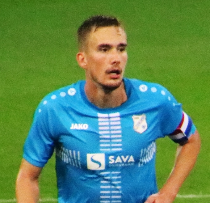 CL Qualifier 3rd round